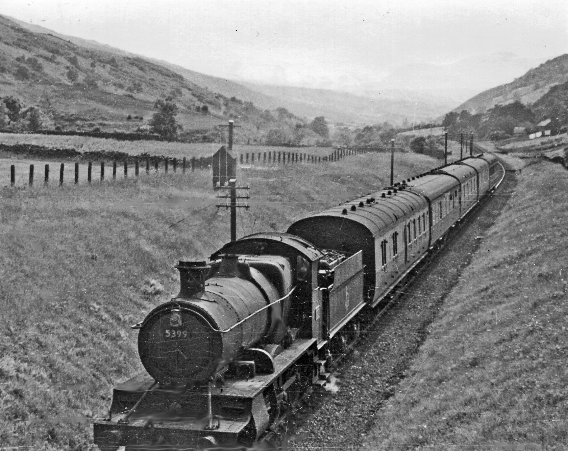 Up stopping train near Llys Halt in the Afon Dyfrydwy valley. View SW, towards Dolgellau and Barmouth; ex-GW Ruabon - Dolgellau - Barmouth line (closed 18/1/65). The train, behind Churchward 43XX 2-6-0 No. 5399 (built 11/20, withdrawn 9/62), left Pwllheli at 12.45 has run via Portmadoc and Barmouth, and from here via Ruabon and Chester - a very scenic journey, eventually to Birkenhead (Woodside), arriving 18.55.